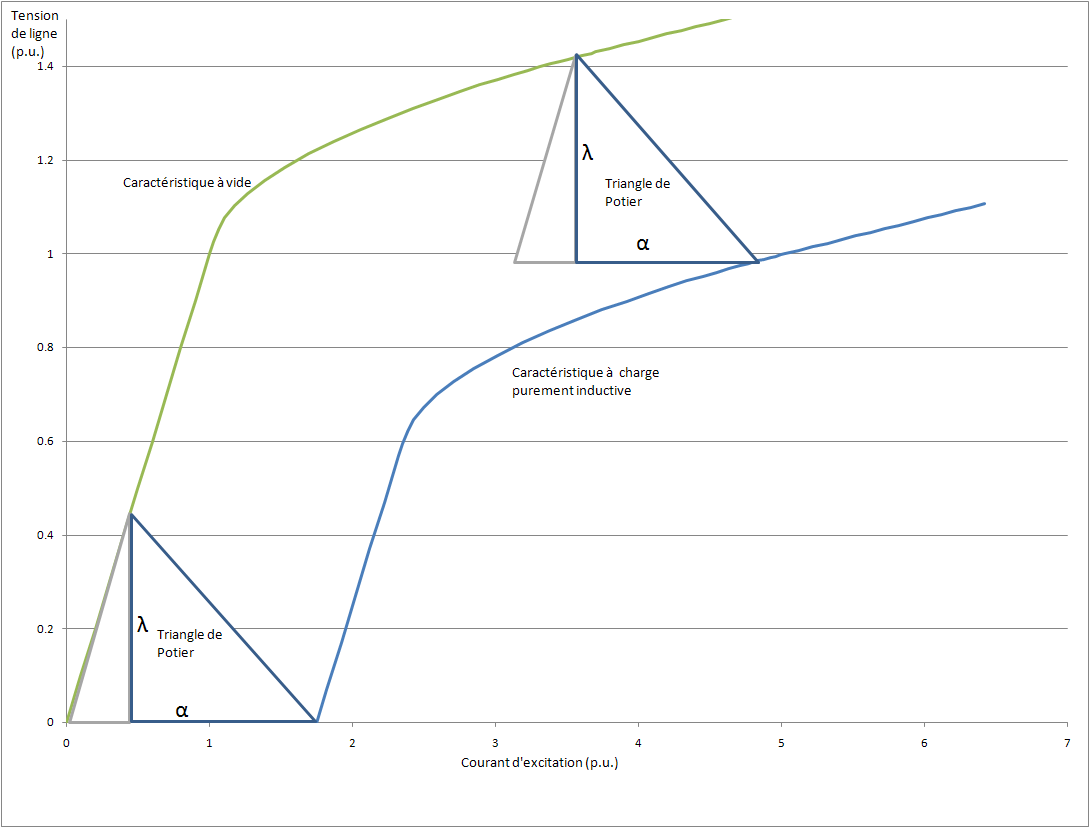 Potier Triangle